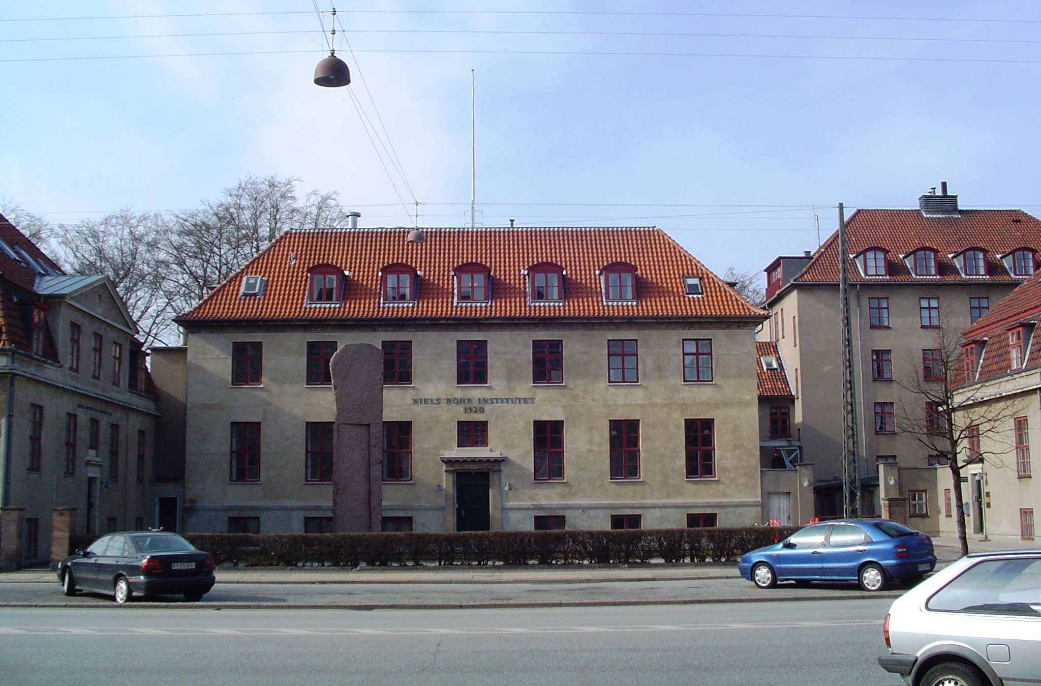 The Niels Bohr Institute at University of Copenhagen. Taken by me on 26-3-2005.